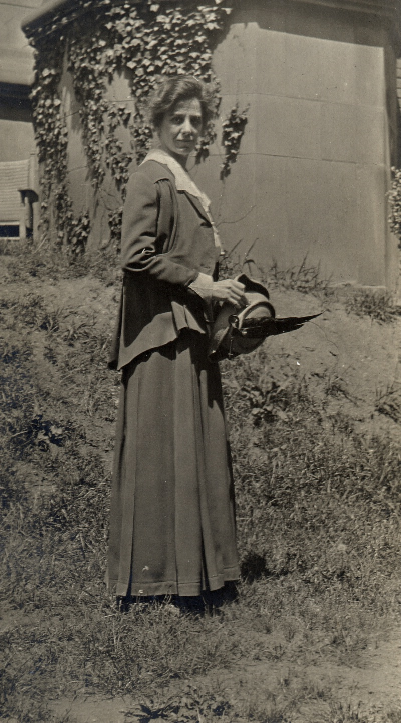 A picture of U.S. psychologist Naomi Norsworthy at Columbia Teachers College, 1915.